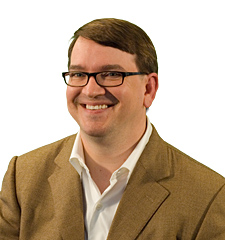 Thomas Powell in 2008